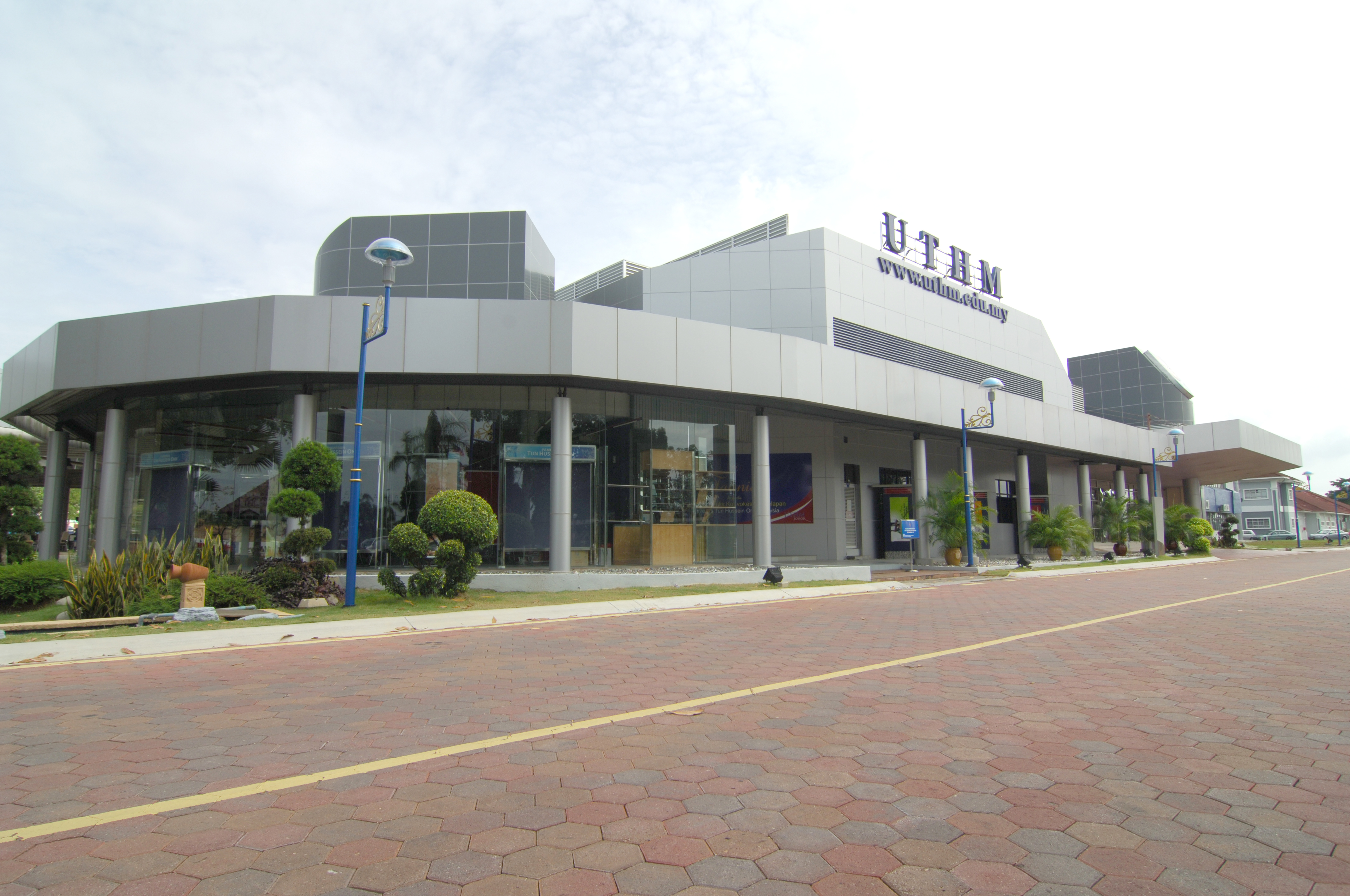 new look of UTHM DTII